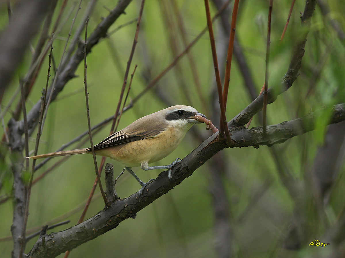 Catch an earthworm.